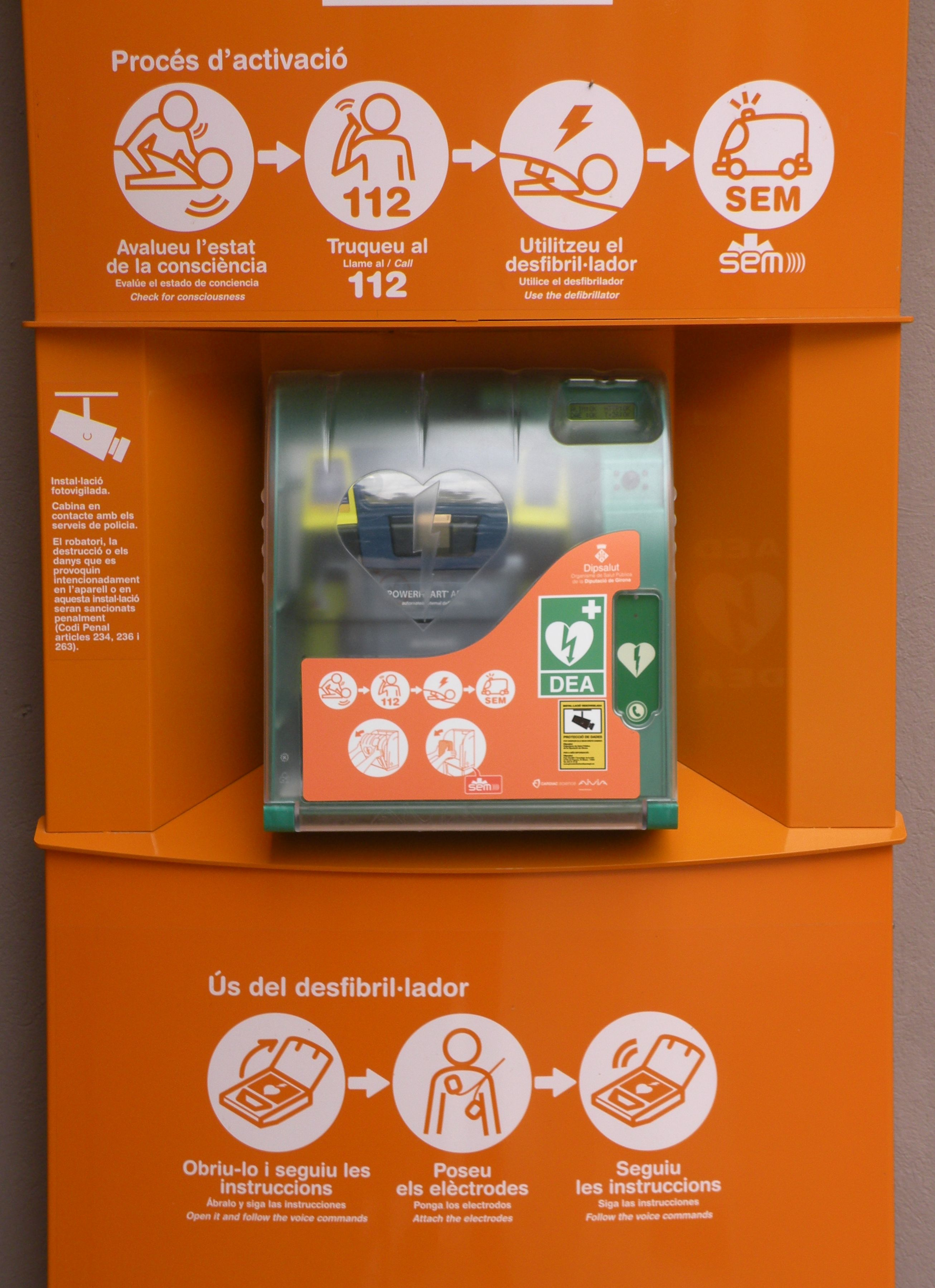 AED of Catalunya, detail front view